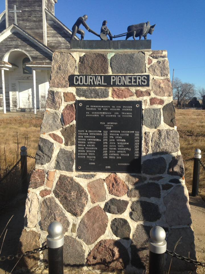 Image of commemorative marker for the pioneers of Courval in Saskatchewan